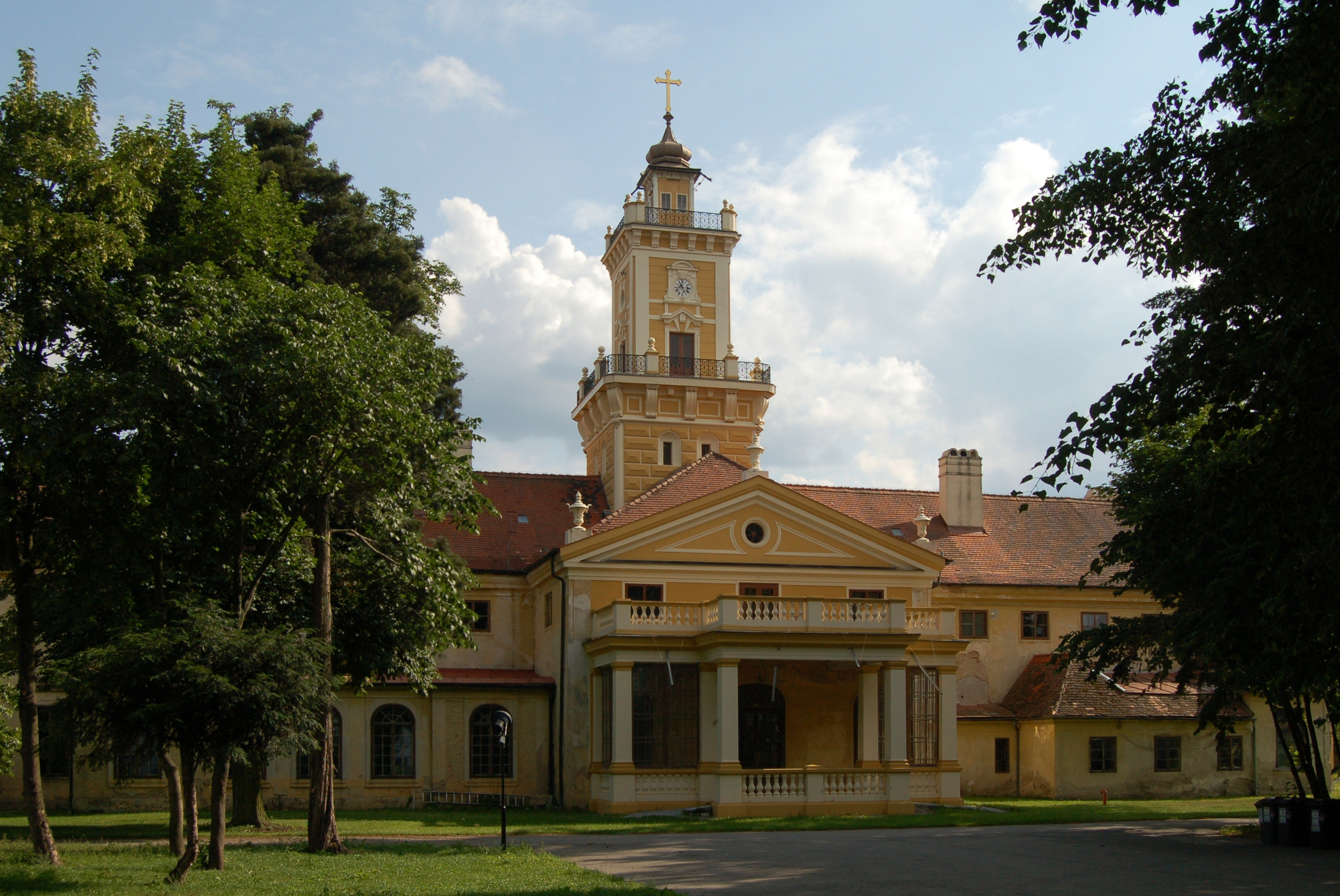 The castle Jaidhof, Lower Austria, is a cultural heritage monument. Back side view.